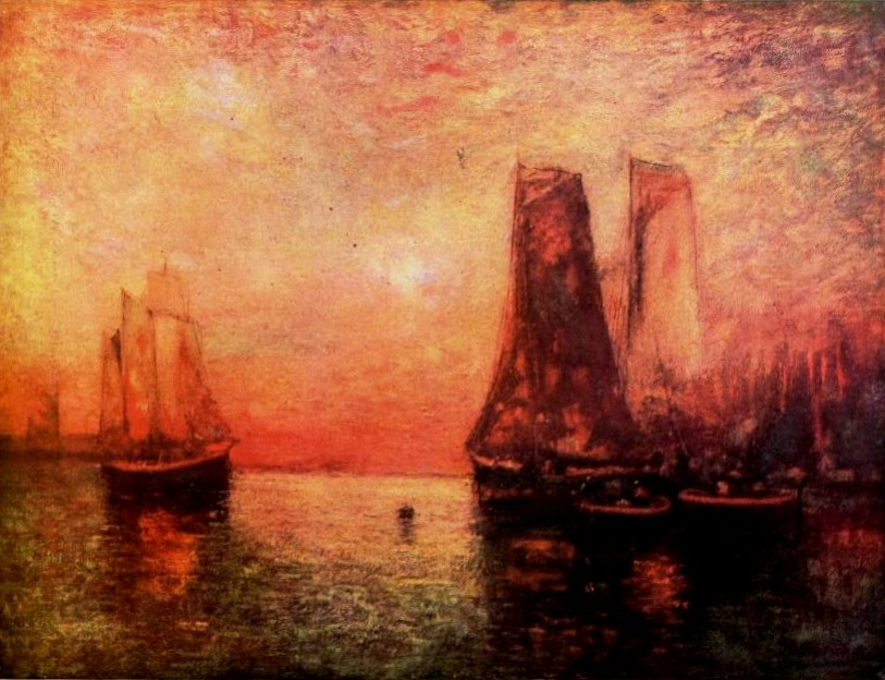 Sunset Marine by American painter Hudson Mindell Kitchell, page 10 of the February 1920 Shadowland.